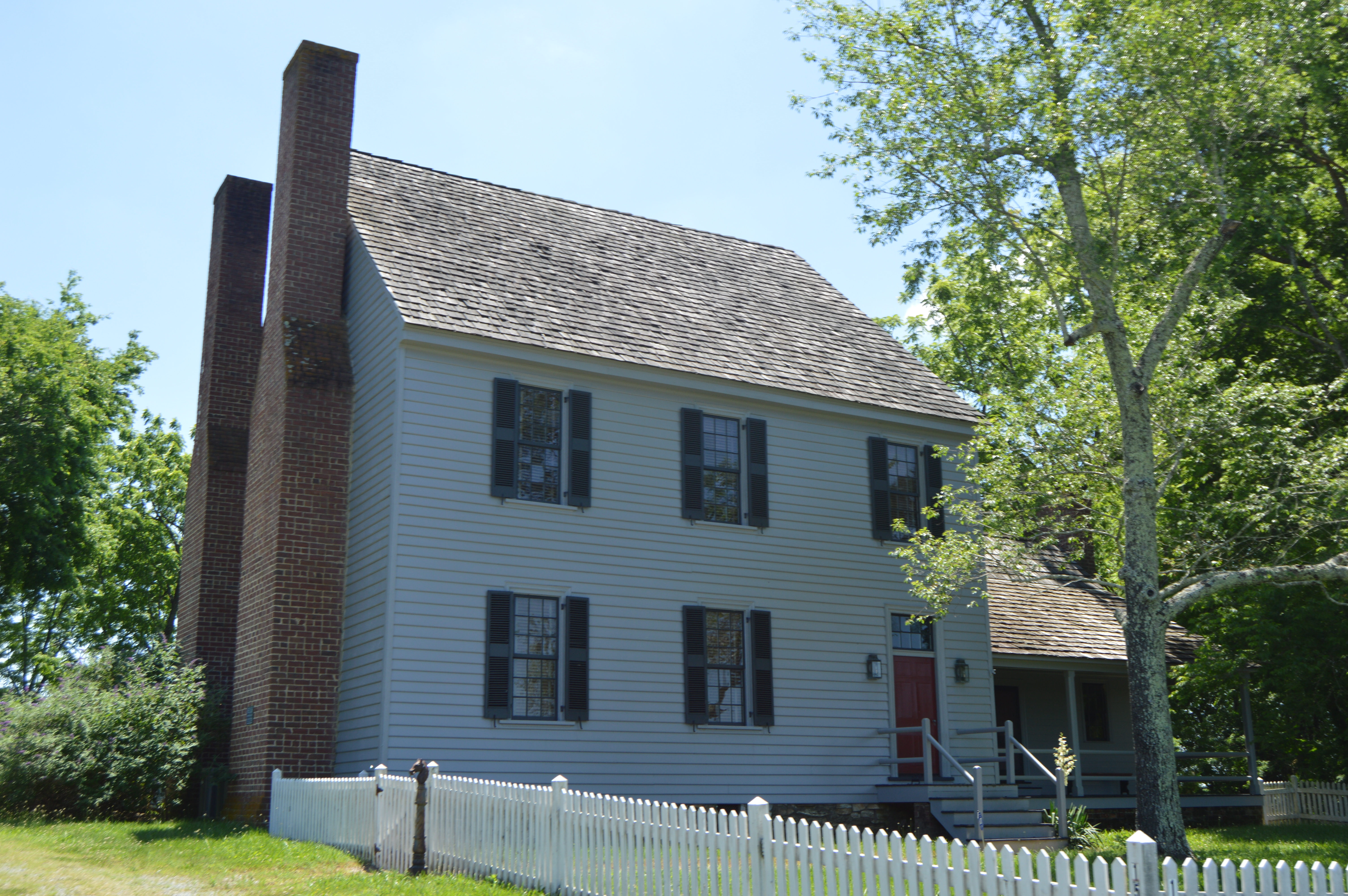 Front and eastern side of Carter's Tavern, located on River Road northwest of Paces in Halifax County, Virginia, United States. It is listed on the National Register of Historic Places.